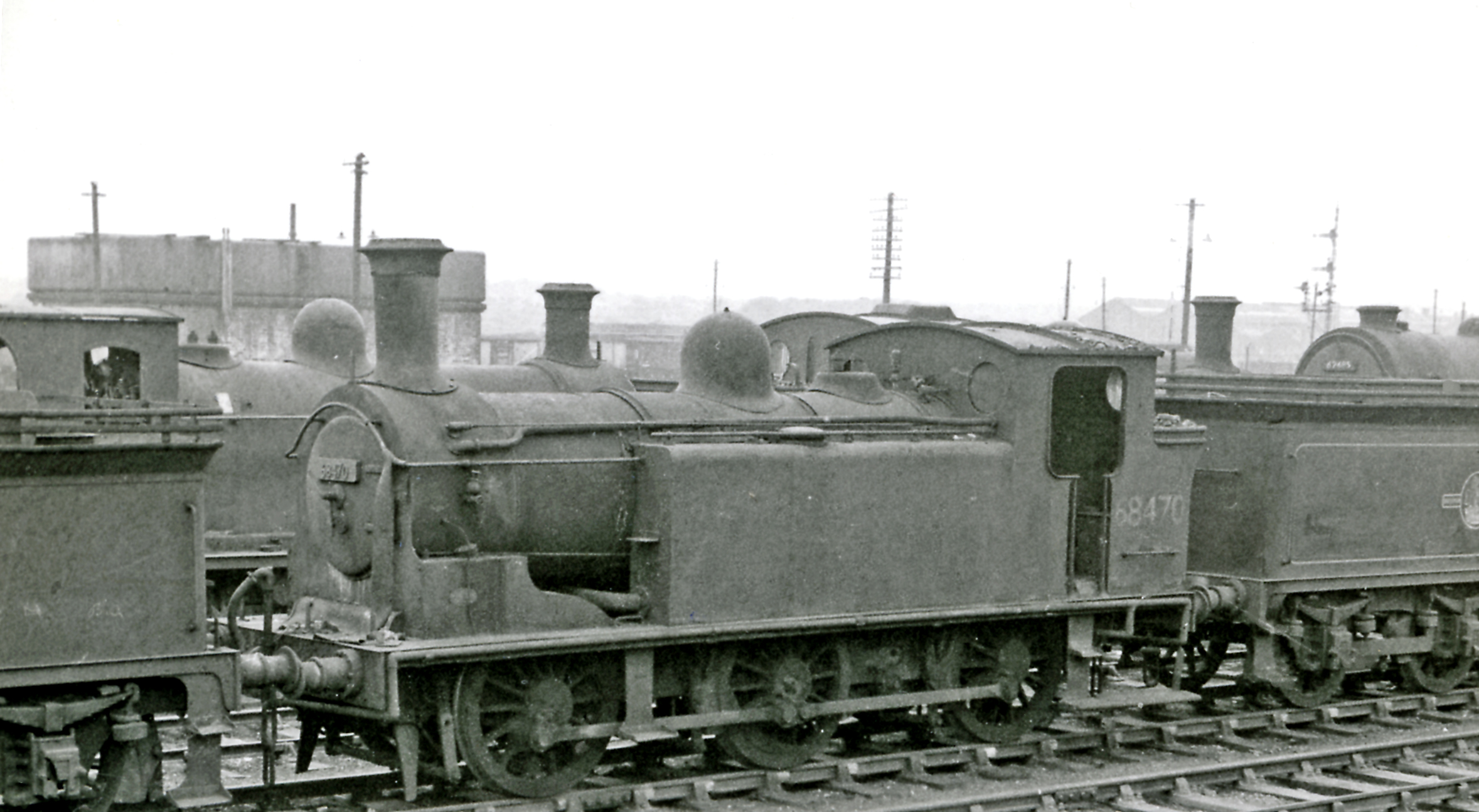 Condemned ex-NBR 0-6-0T in dump at Bathgate Locomotive Depot (See also NS9768 : EX_NBR N15 0-6-2T dumped at Bathgate Locomotive Depot and others). No 68470 is an ex-NBR Holmes class D (LNER J83), built 4/1901 as No. 823 (became LNER No. 9823, 8470 in 1946), officially withdrawn in 10/62.